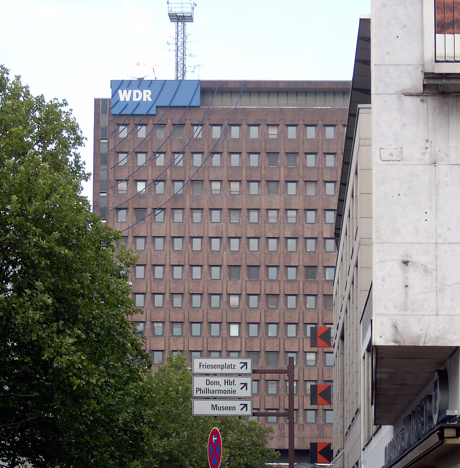 WDR, radio/TV station Cologne, Germany